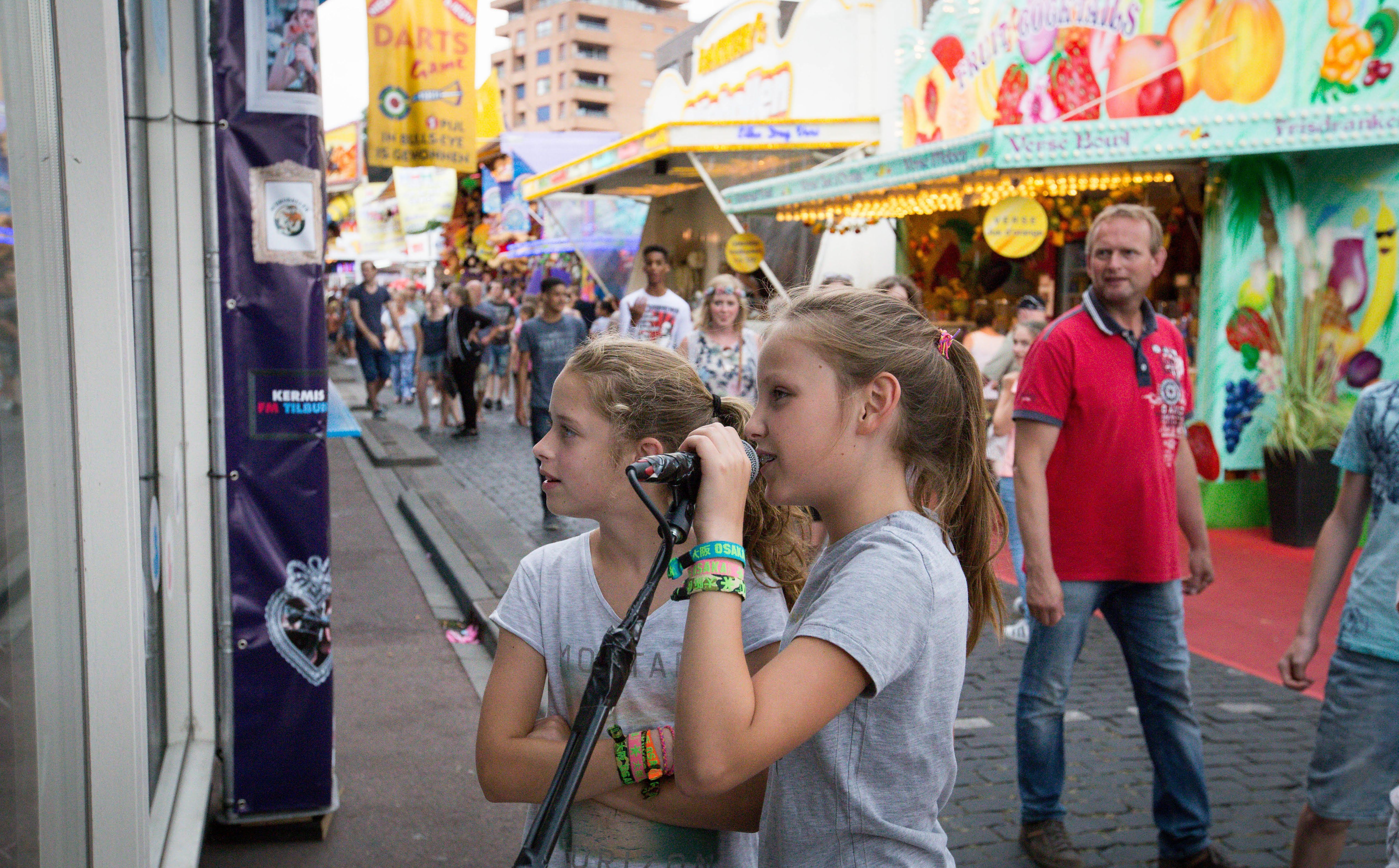 Kinderen bij buitenmicrofoon Kermis FM 2016